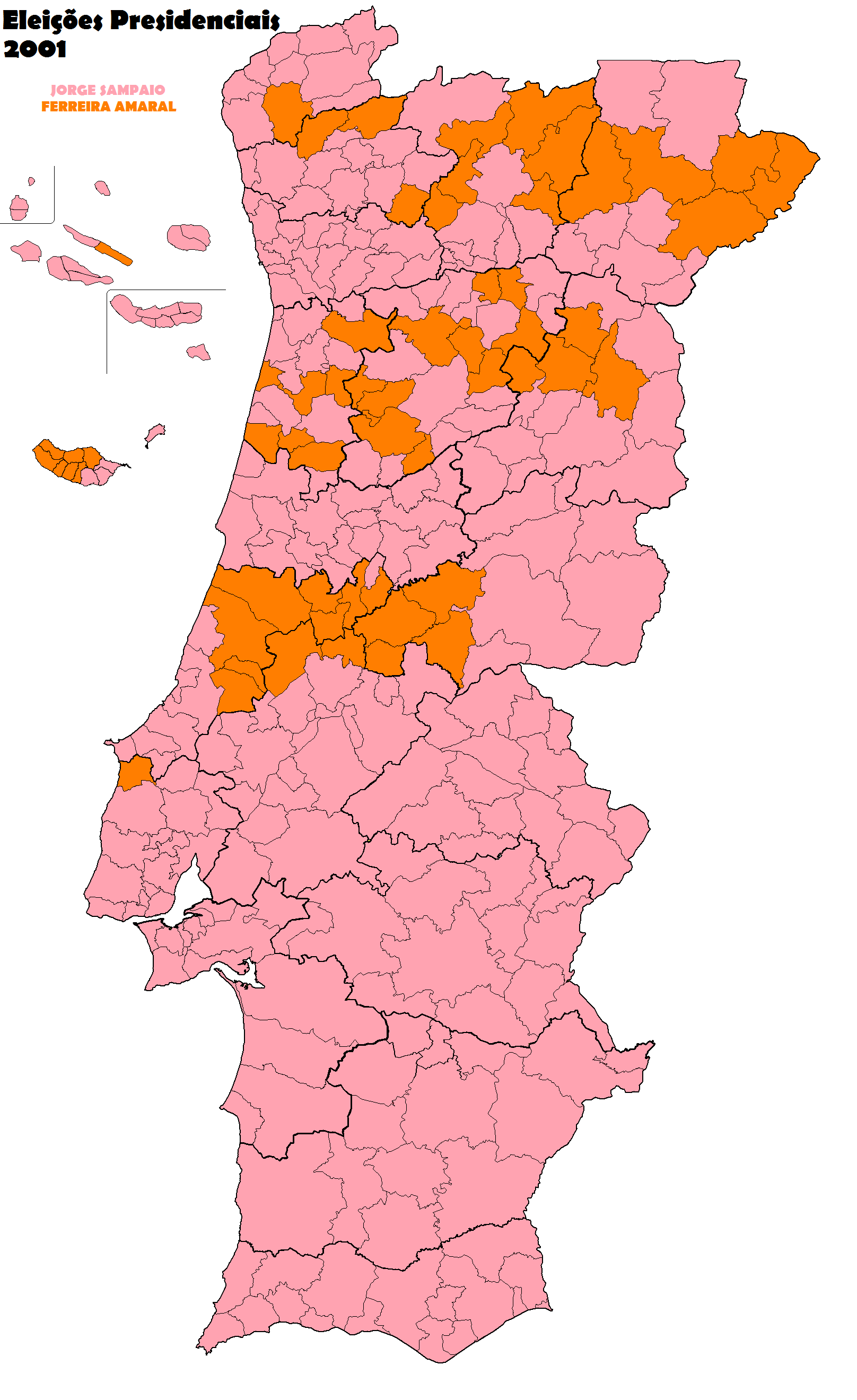 Pink - Jorge Sampaio Orange - Ferreira do Amaral